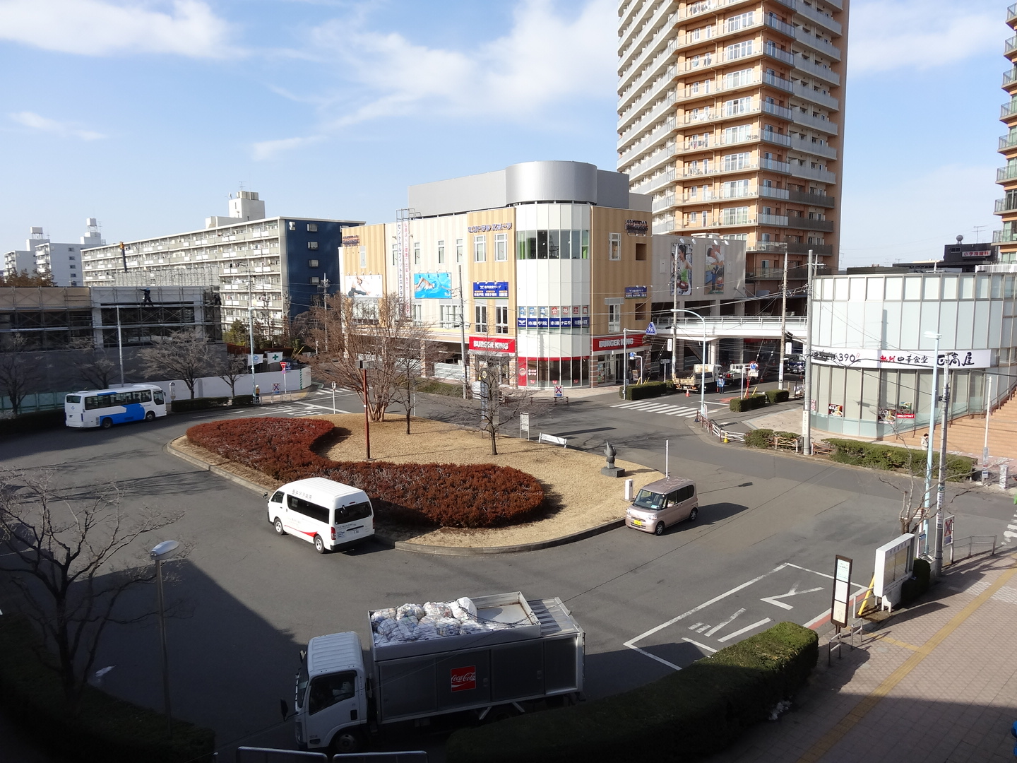 The station forecourt on the north side of Kotesashi Station in Saitama Prefecture, Japan